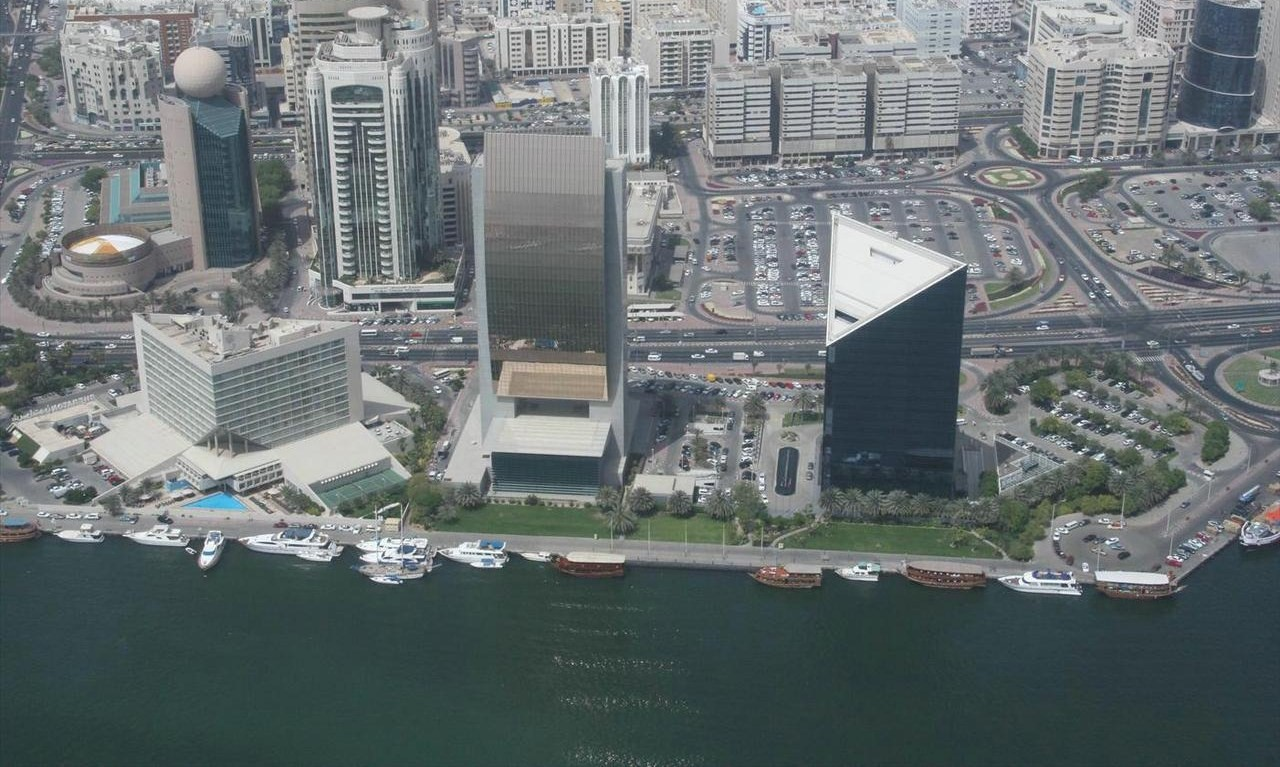 This is a photo showing the buildings in Deira, Dubai, United Arab Emirates along Dubai Creek as seen from the air on 1 May 2007. These buildings are both symbols and landmarks for Dubai. The buildings are the Etisalat Tower 1 (with the "ball" on top), Dubai Creek Tower (to the right of Etisalat Tower 1), the Dubai Sheraton Hotel (the shortest building on the left in the front), the National Bank of Dubai Building (the tallest building in Deira), and the Dubai Chamber of Commerce and Industry (the building on the right).